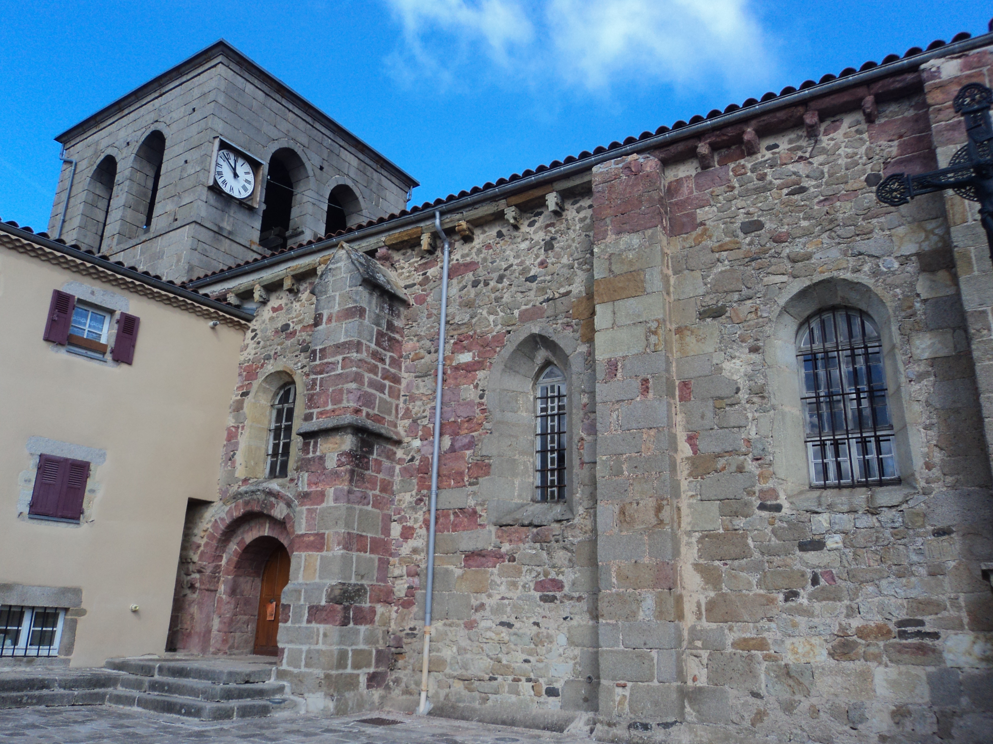 Description Église Saint Pierre Date22 September 2011SourcePhoto personnelle de ChcoumouneAuthorChcoumounePermission (Reusing this file) This work has been released into the public domain by its author, Chcoumoune. This applies worldwide. In some countries this may not be legally possible; if so: Chcoumoune grants anyone the right to use this work for any purpose, without any conditions, unless such conditions are required by law. Église Saint Pierre